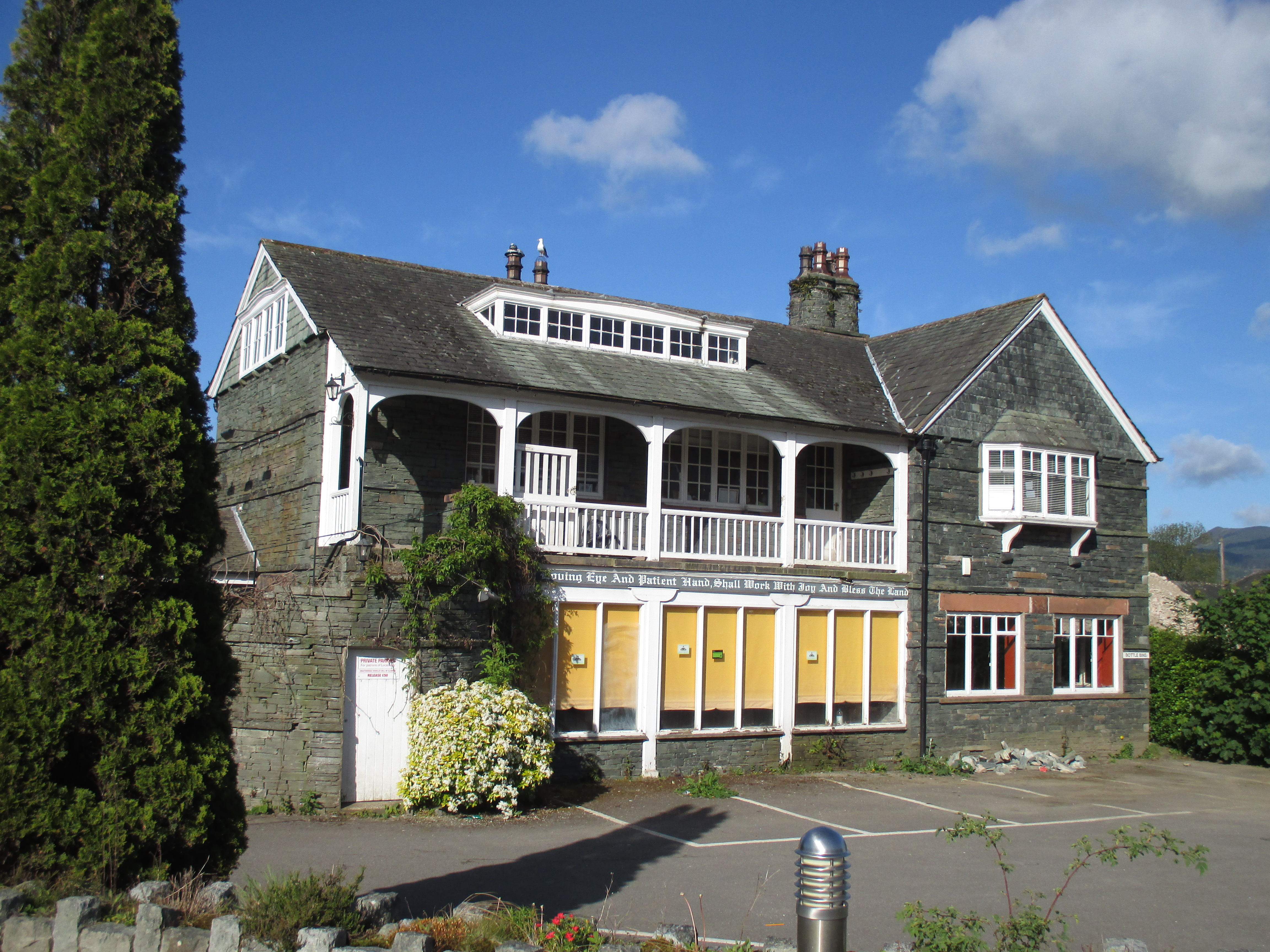 The former building of the Keswick School of Industrial Art, High Hill, Keswick, Cumbria.